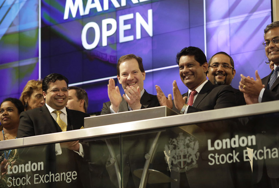 LSE opening ceremony by CSE